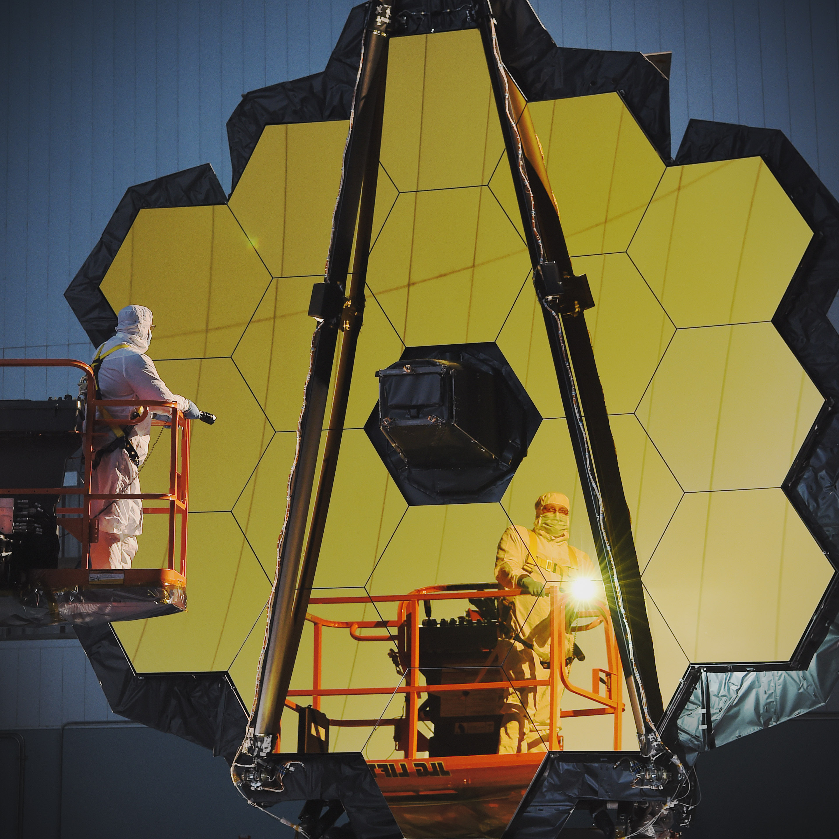 Engineers and technicians working on the James Webb Space Telescope successfully completed the first important optical measurement of Webb’s fully assembled primary mirror, called a Center of Curvature test. Taking a “before” optical measurement of the telescope’s deployed mirror is crucial before the telescope goes into several stages of rigorous mechanical testing. These tests will simulate the violent sound and vibration environments the telescope will experience inside its rocket on its way out into space. This environment is one of the most stressful structurally and could alter the shape and alignment of Webb’s primary mirror, which could degrade or, in the worst case, ruin its performance. Webb has been designed and constructed to withstand its launch environment, but it must be tested to verify that it will indeed survive and not change in any unexpected way. Making the same optical measurements both before and after simulated launch environment testing and comparing the results is fundamental to Webb’s development, assuring that it will work in space. Credit: NASA/Goddard/Chris Gunn Read more: NASA image use policy. NASA Goddard Space Flight Center enables NASA’s mission through four scientific endeavors: Earth Science, Heliophysics, Solar System Exploration, and Astrophysics. Goddard plays a leading role in NASA’s accomplishments by contributing compelling scientific knowledge to advance the Agency’s mission. Follow us on Twitter Like us on Facebook Find us on Instagram